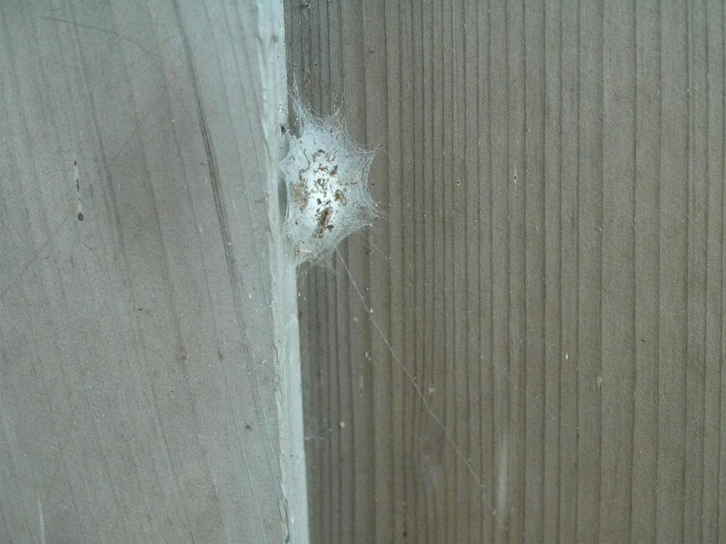 Uroctea compactillis Japanese name:Hiratagumo：ヒラタグモ Date;2009,09.20;Tanabe City, Wakayama prefecture, Japan Author;Keisotyo